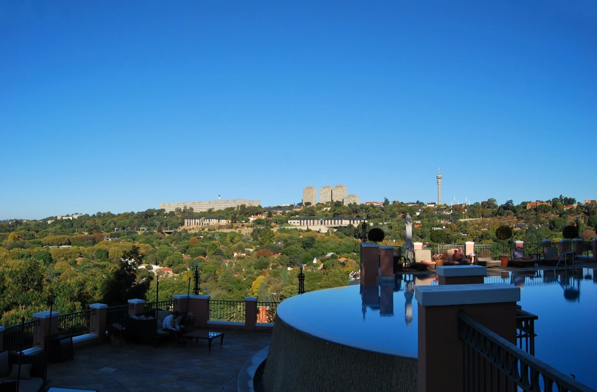 This is a photo of the Johannesburg General Hospital from the Westcliff hotel